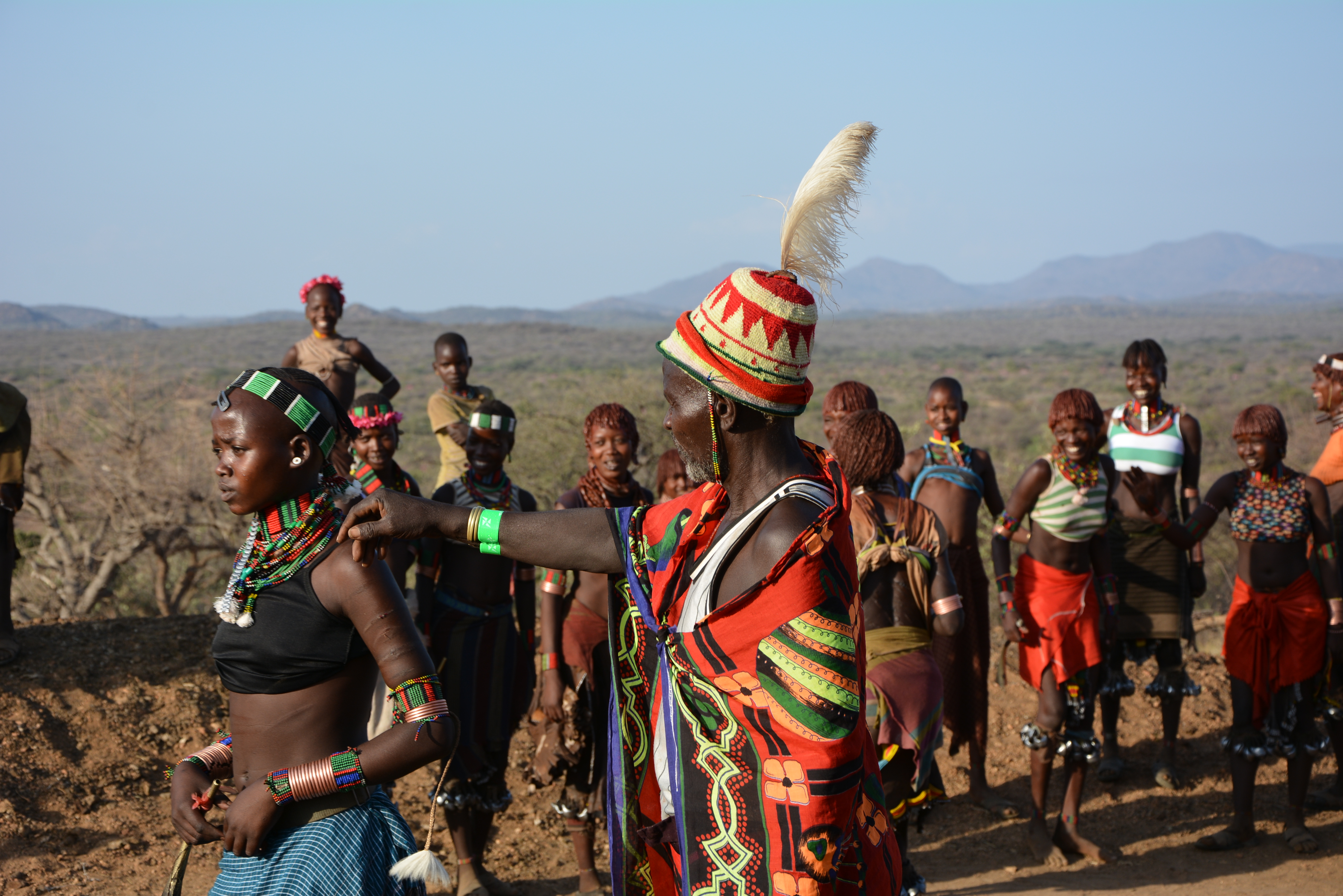 This is an image of Cultural Fashion or Adornment from Ethiopia